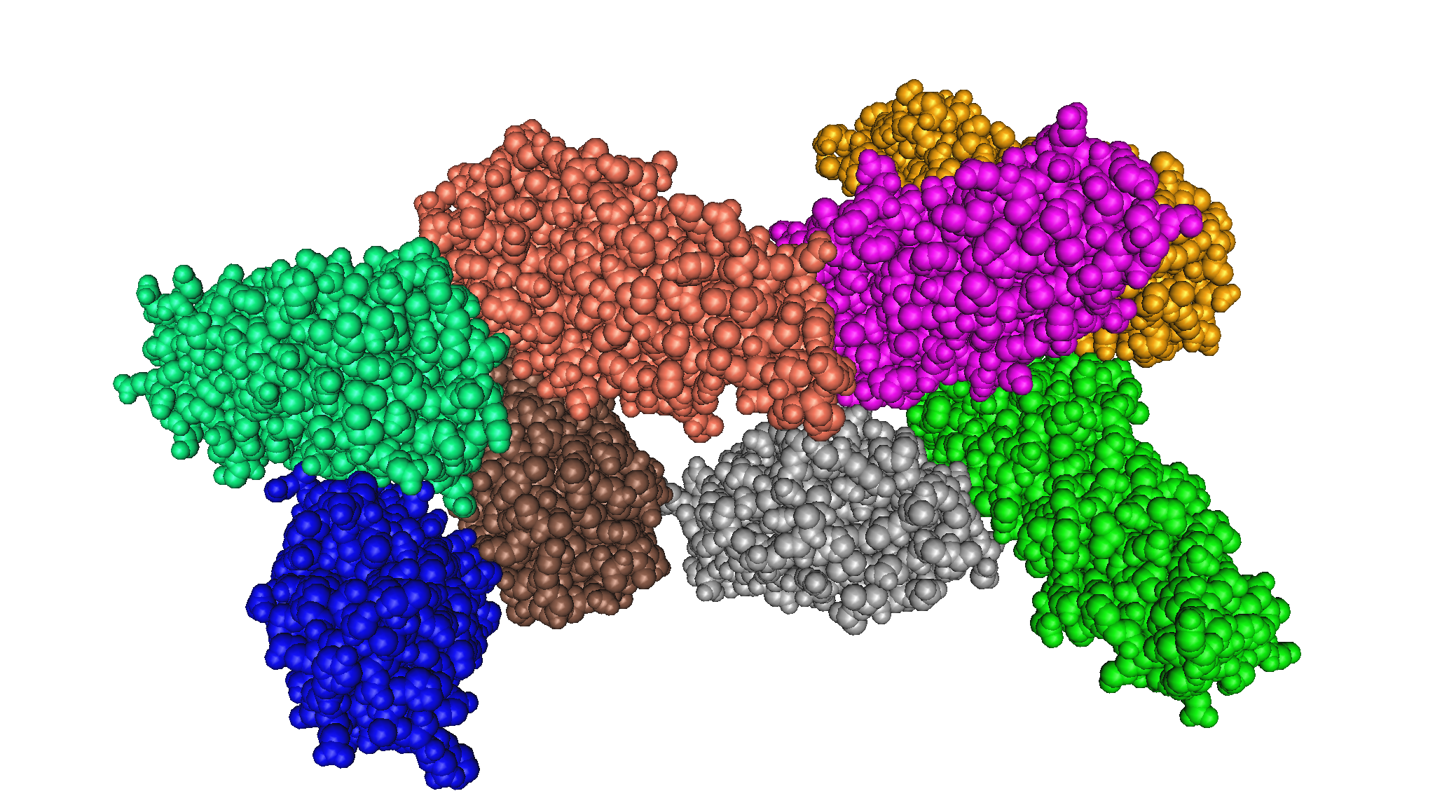 Panton-Valentine Leucocidin S Component From Staphylococcus Aureus 1T5R